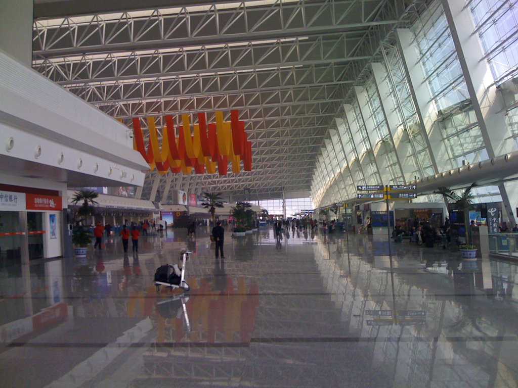 Wuhan Tianhe International Airport